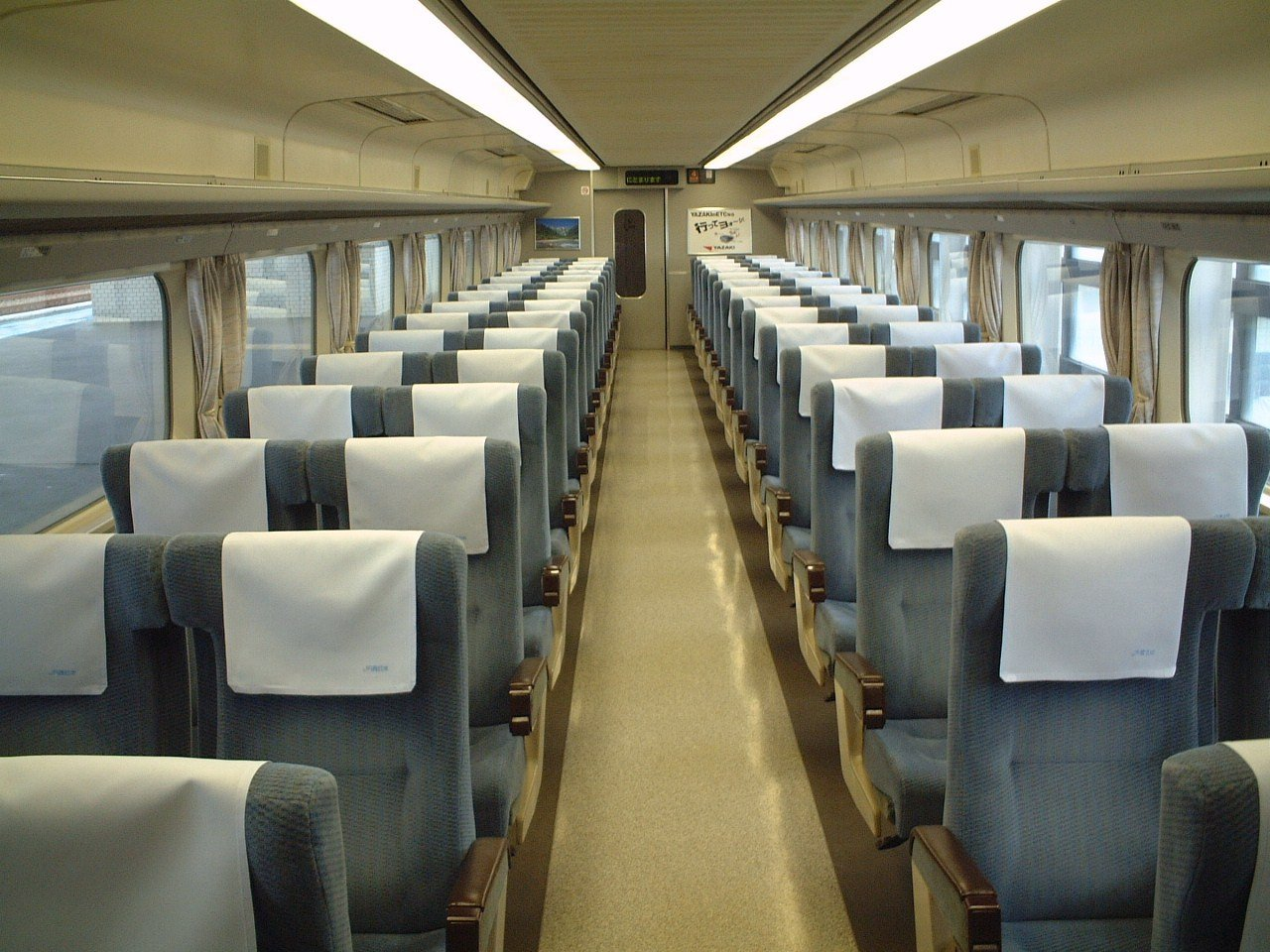 Interior of JR West 100 series shinkansen Kodama set P5 with 2+2 seating